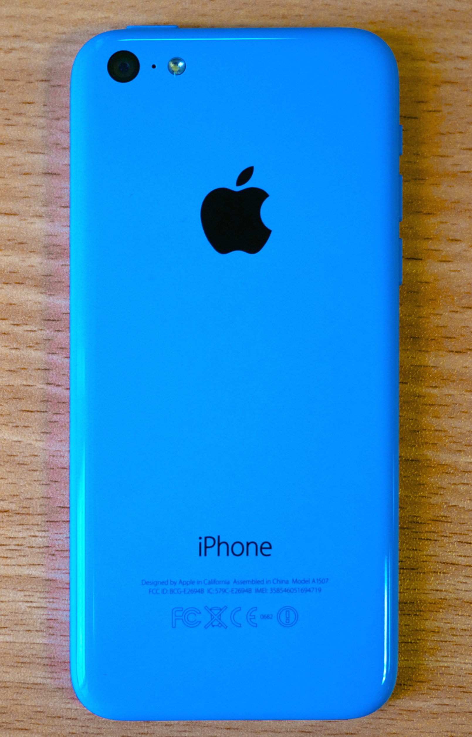 Rear side of blue iPhone 5c